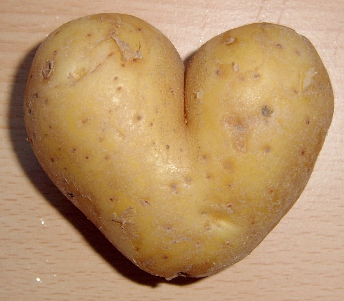 "Heart"-shaped potato ;-) - (Solanum tuberosum) Foto taken by Lumbar 17:16, 6 November 2005 (UTC) in Osnabrück, Germany